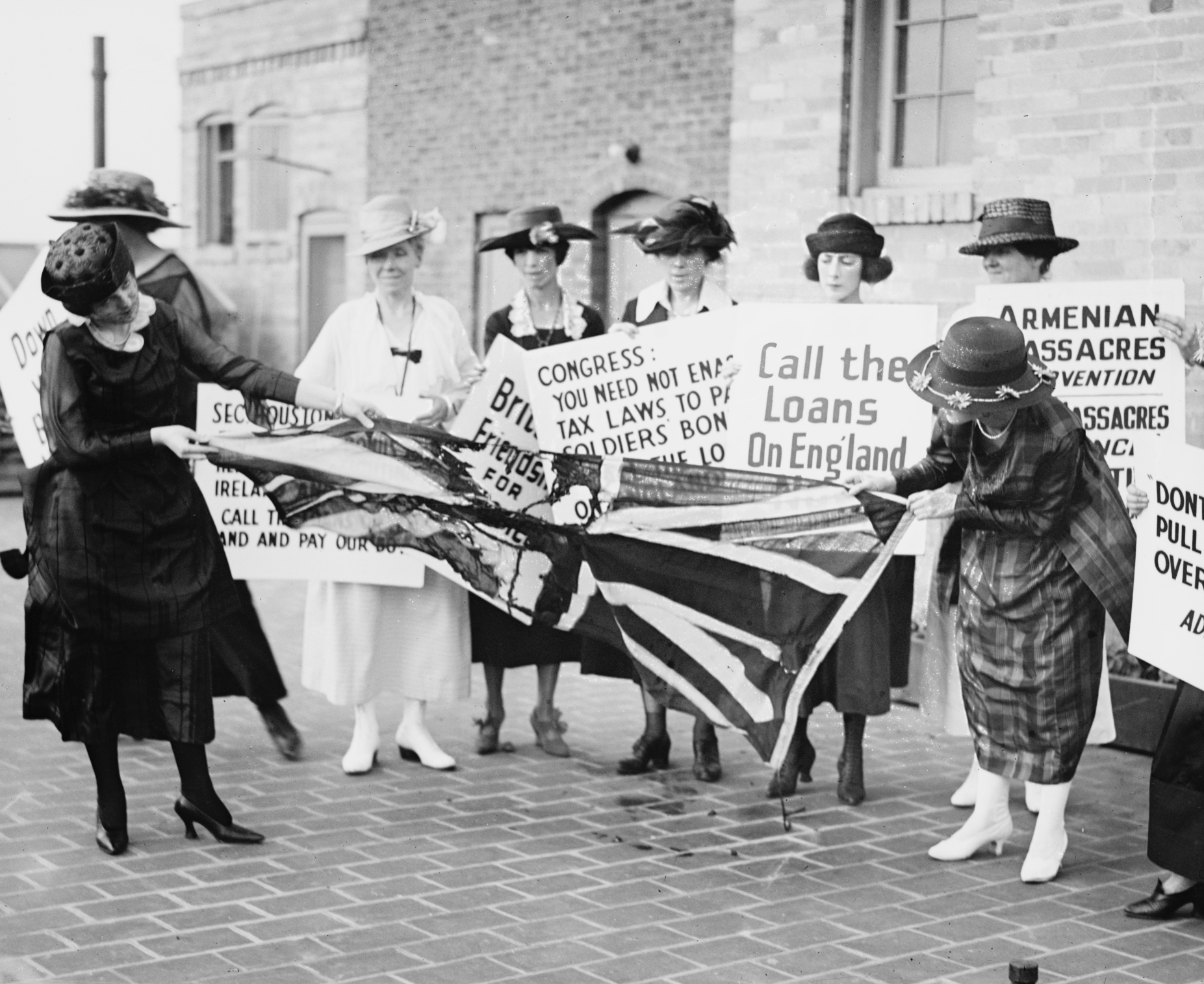 A group of women on the sidewalk, carrying signs against America's involvement on the side of the United Kingdom against Irish Republicans, and tearing up a British flag, June 3, 1920